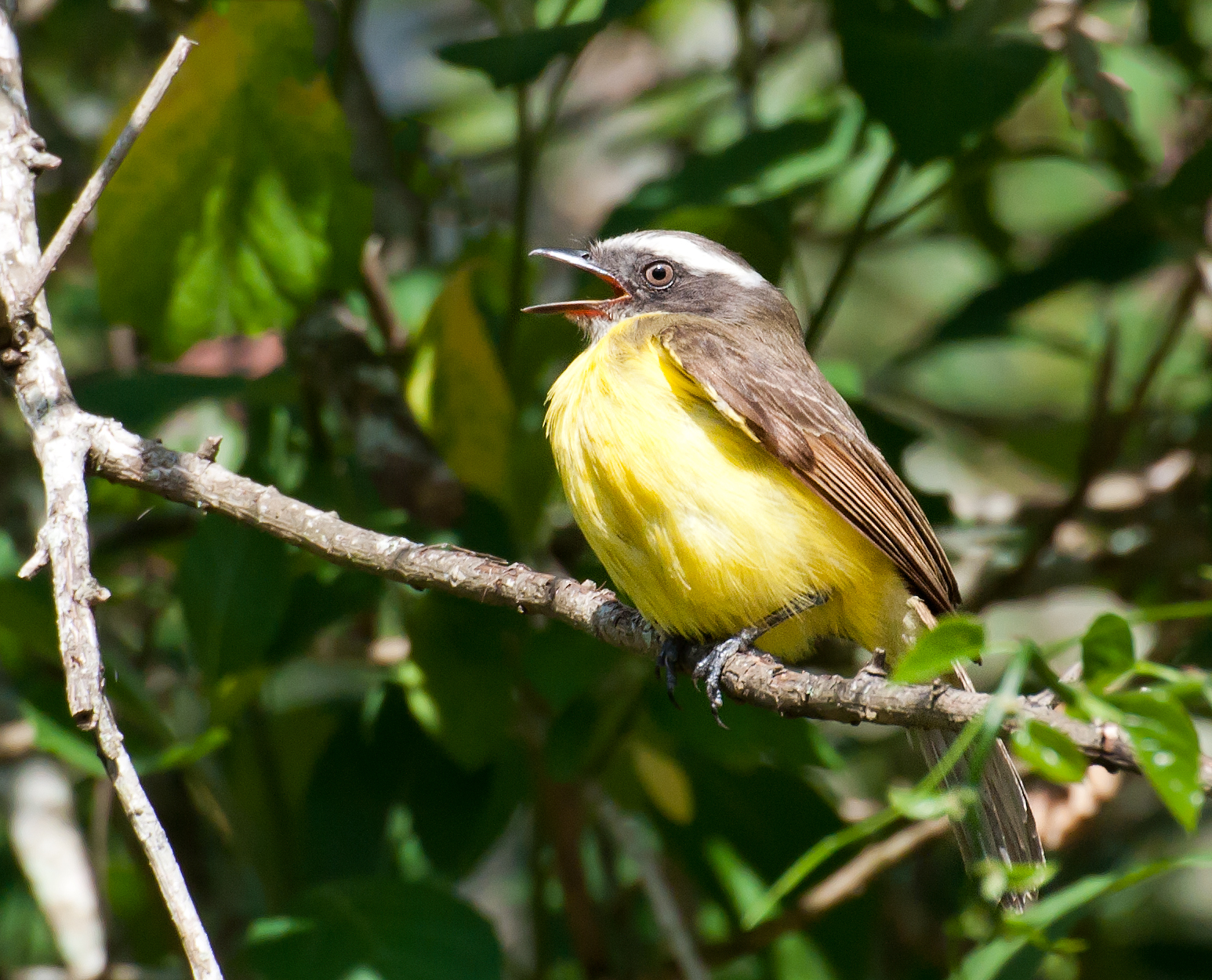 A Social Flycatcher in Vale do Ribeira, Registro, Sao Paolo, Brazil.